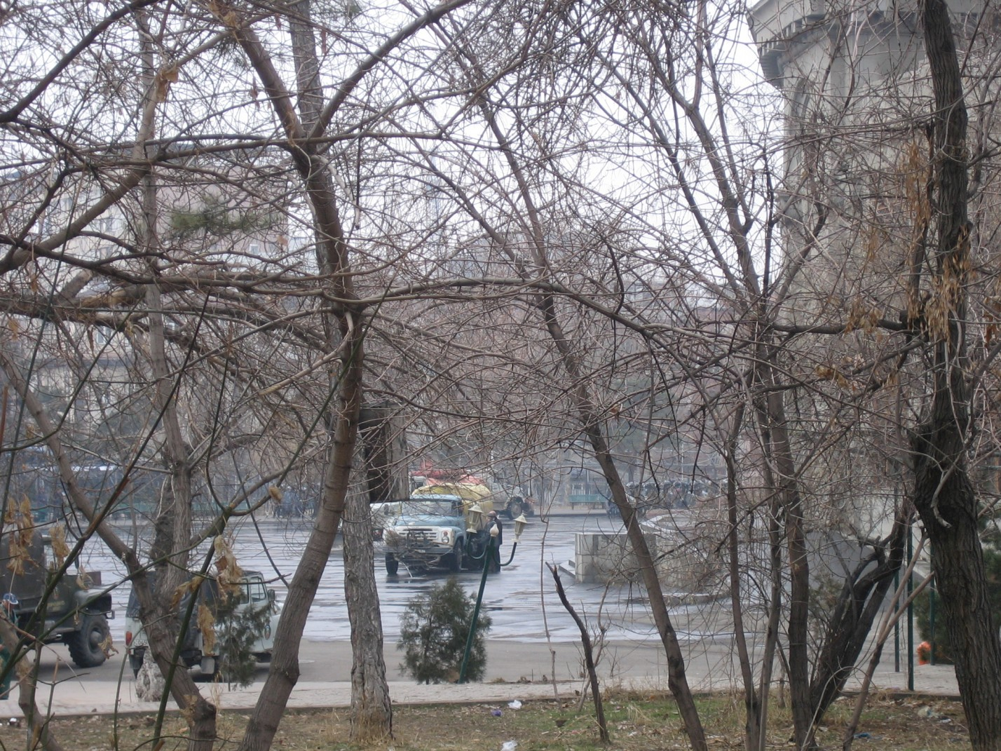 The 11th day of Armenian presidential election protests. At 7:30 am, the peaceful "camp-in" protest at Liberty Square in Yerevan was violently ended by Armenian special forces which used truncheons and electric shock devices to disperse the crowd of around 1,000. In this picture taken around noon, government employees use large water tankers to clean the area of debris and blood, while riot police and the army have cordoned off Liberty Square. (Visible are army transport vehicles at the bottom left, and riot police marching in the center right; note that this is before the "state of emergency" was declared by the government at 10 pm.)